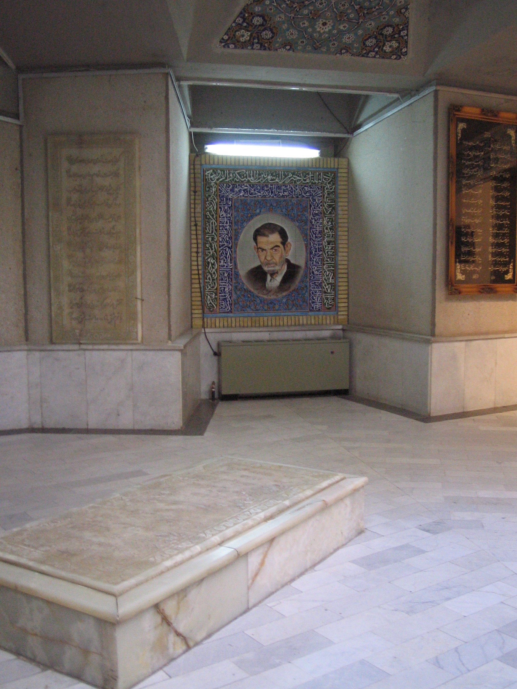 Sharyiar's Tomb in Tabriz, Iran